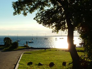 Gator1, original